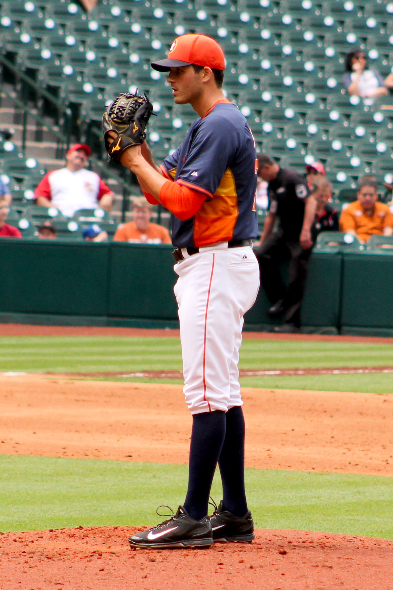 Mark Appel, pitcher with the Houston Astros, pitches at Minute Maid Park during a 2014 preseason exhibition game against Veracruz of the Mexican League.